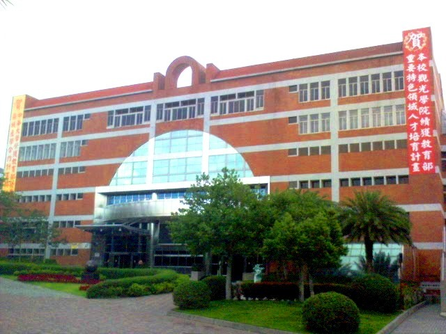 Chung Hua University Library and Administration Building